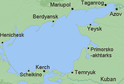 Black Sea